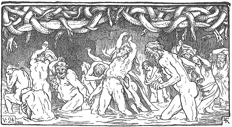 People wade through venom dripping from the serpents above in Náströnd as attested in Völuspá. Image appears as an illustration for Völuspá. "V:24" stands for Völuspá stanza 24. Otherwise, no caption or title given in work.